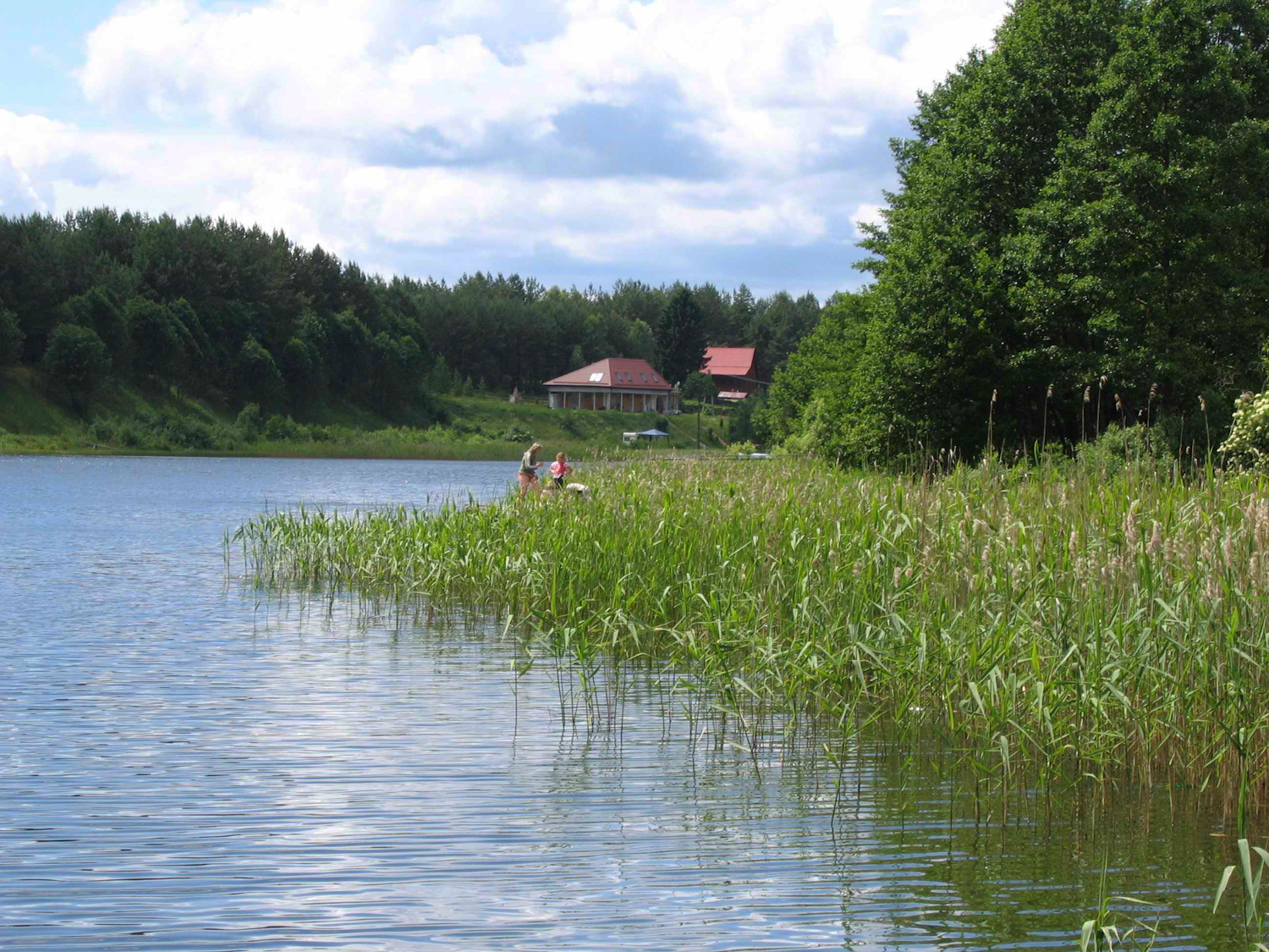 Gim Lake in Nowa Kaletka, near Olsztyn